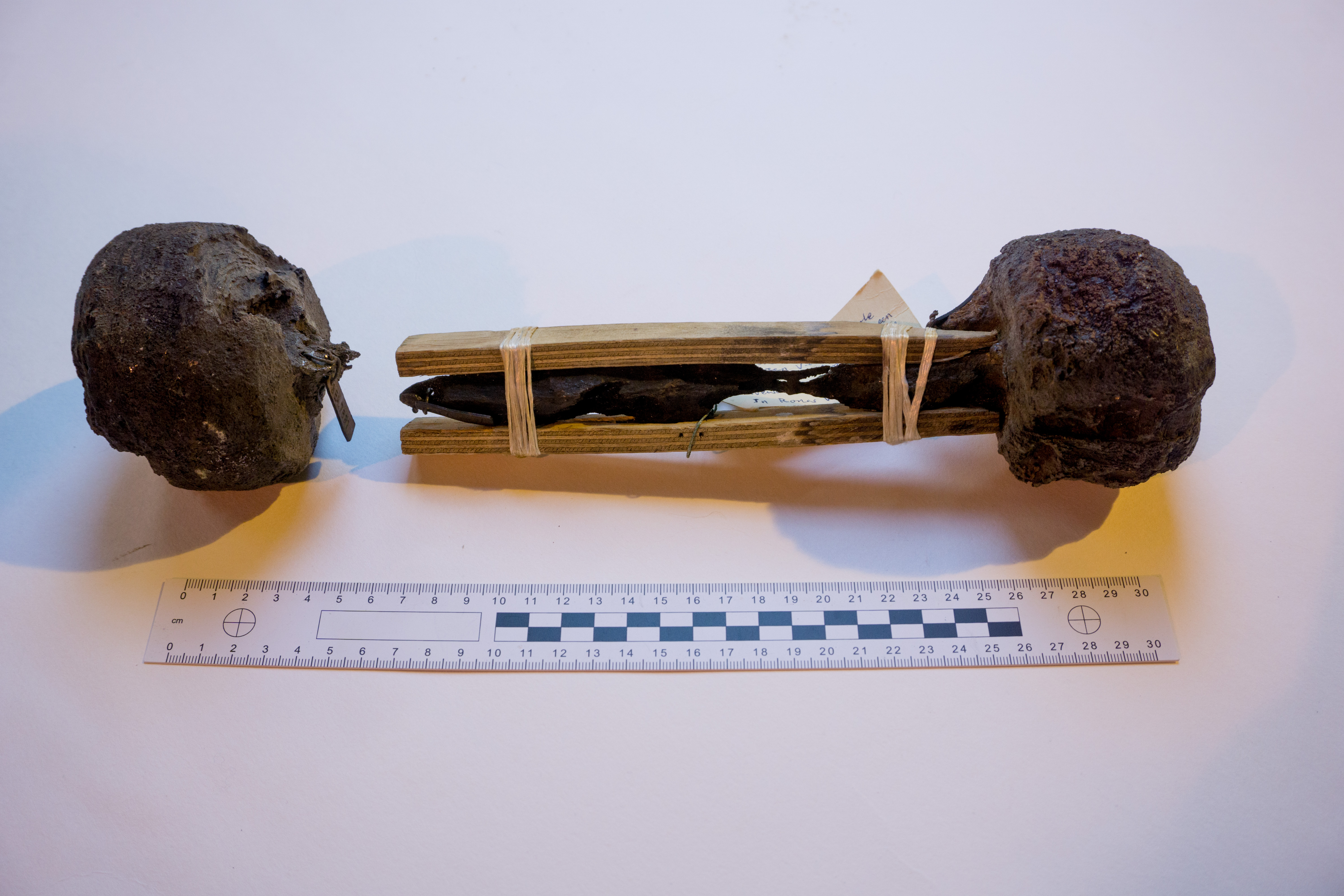 A few years after a new road was put in place over a steep hill in Heylor, Northmavine, Jack Edwardson noticed a rusty mark in the ground. Upon investigation, he discovered this bar shot, which he later donated to the Shetland Musuem and Archives. As of the writing of this description it is kept in the Museum's collection under reference SEA 7691.